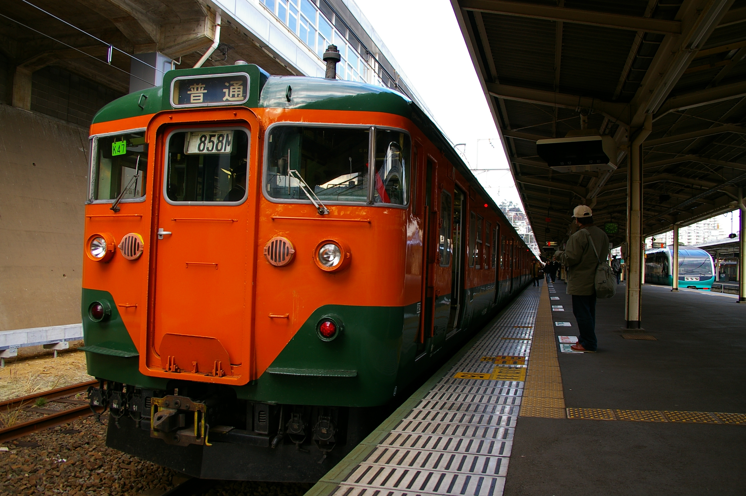 the platform Atami sta. No.4,5